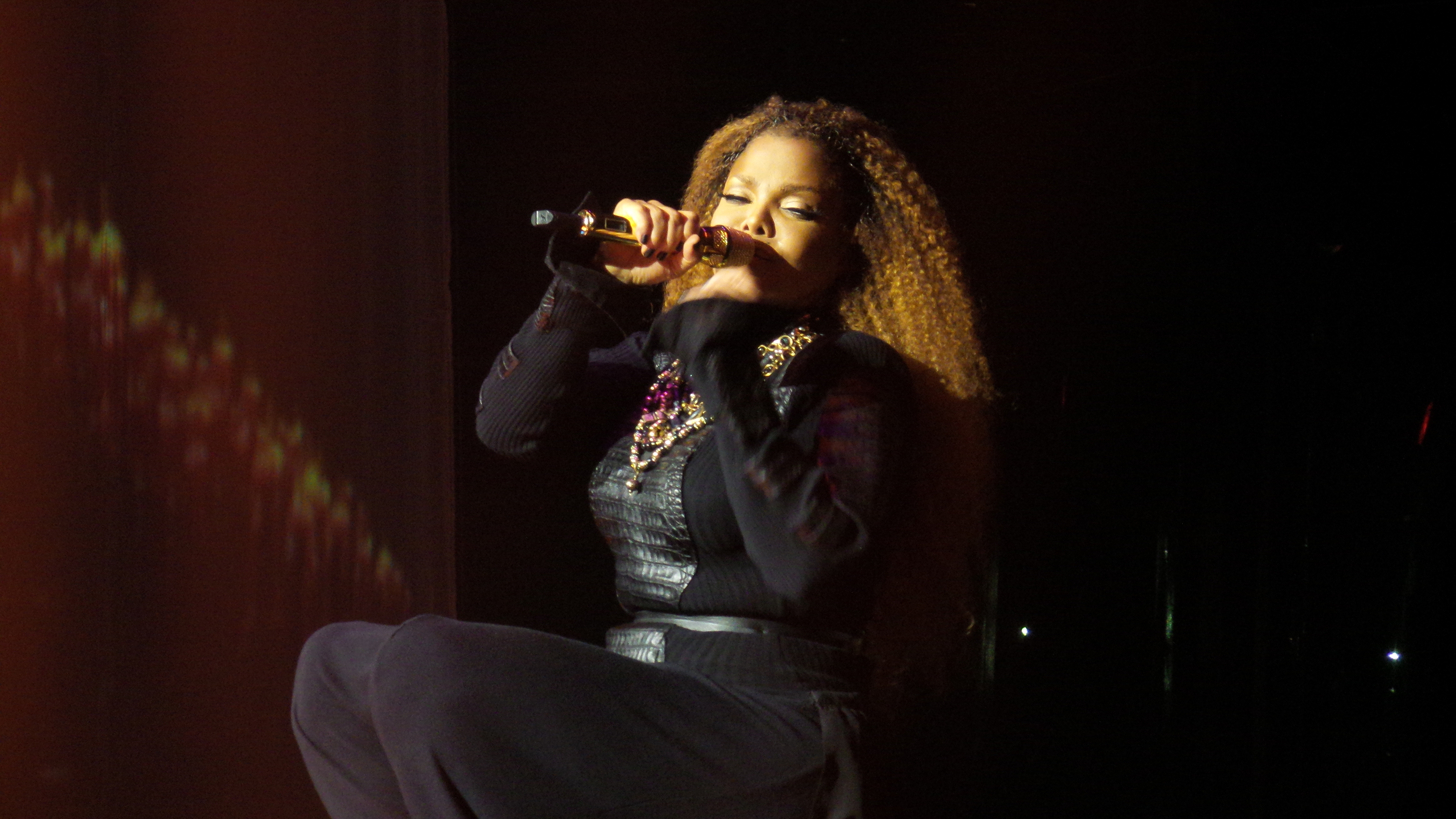 Janet Jackson Unbreakable Tour, Honolulu, Hawaii 2015